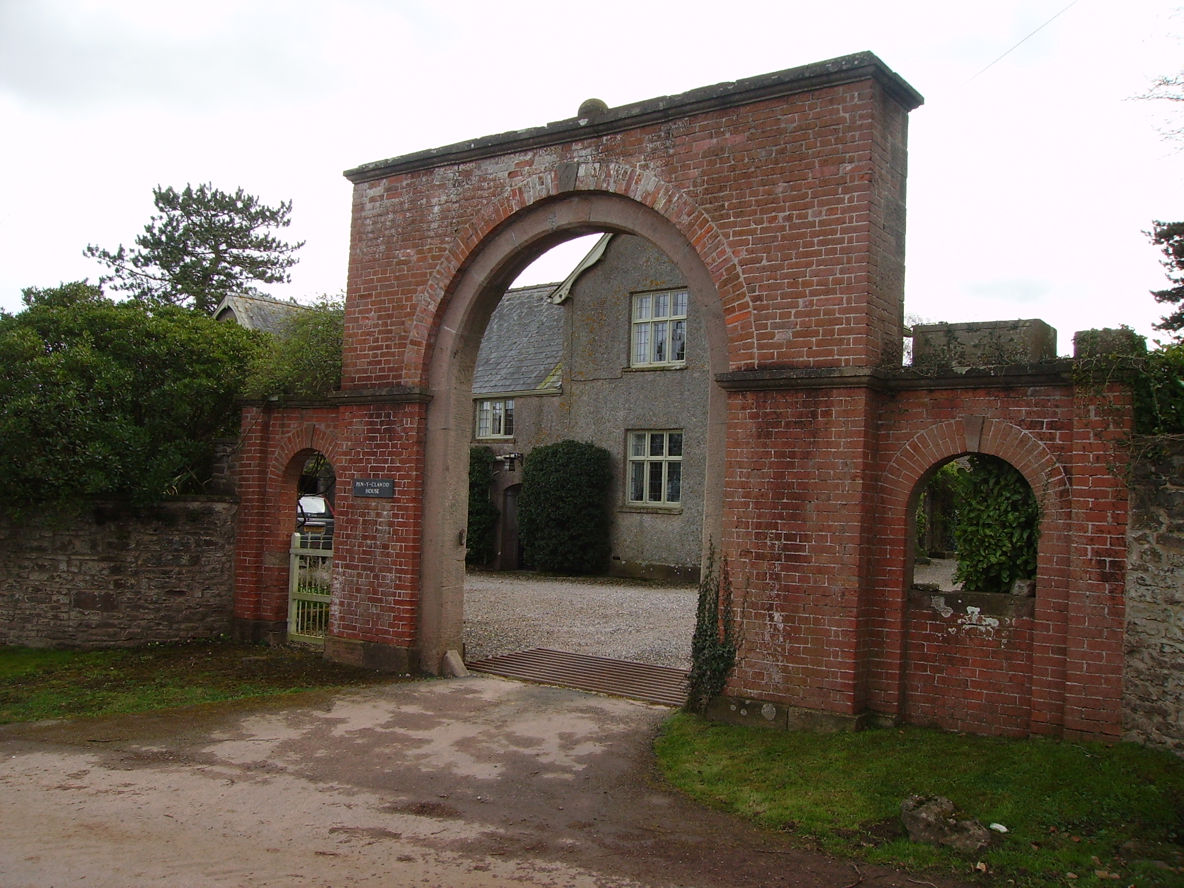 Pen-y-clawdd House, Monmouthshire